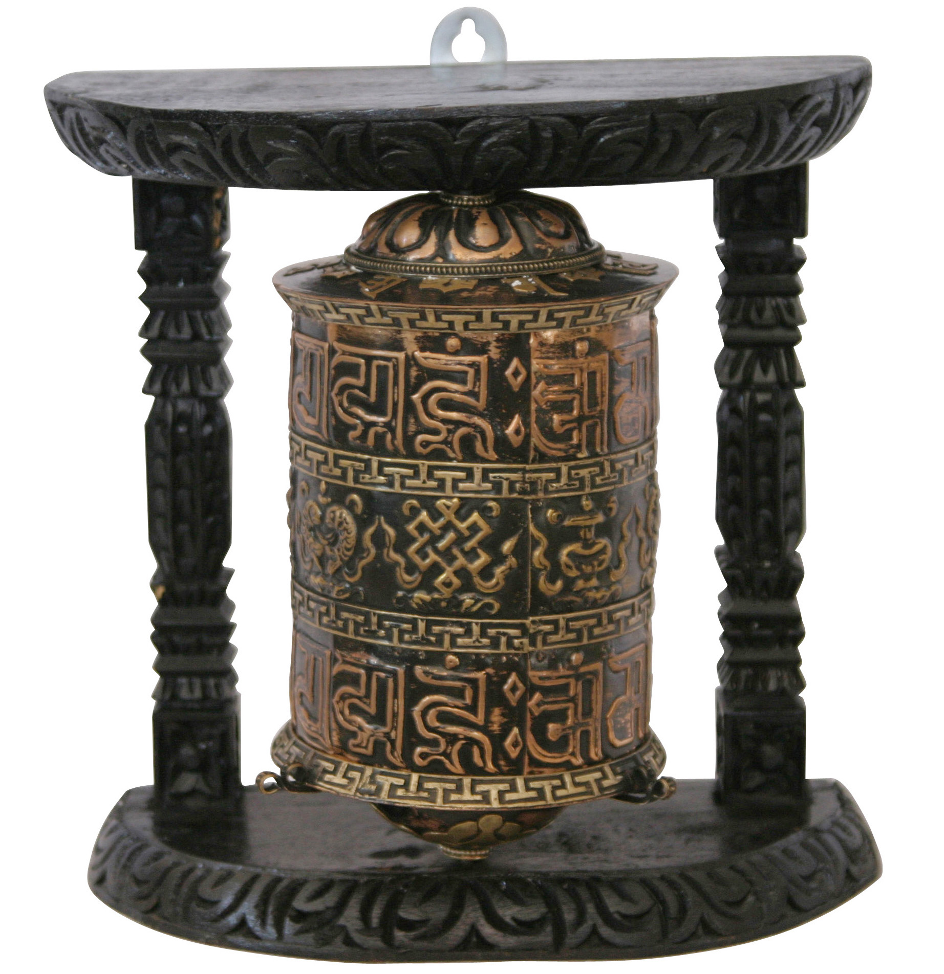 Tibetan prayer wheels are holy ritual objects for spreading and distributing spiritual blessings positive and well wishes for all beings to invoke good karma.